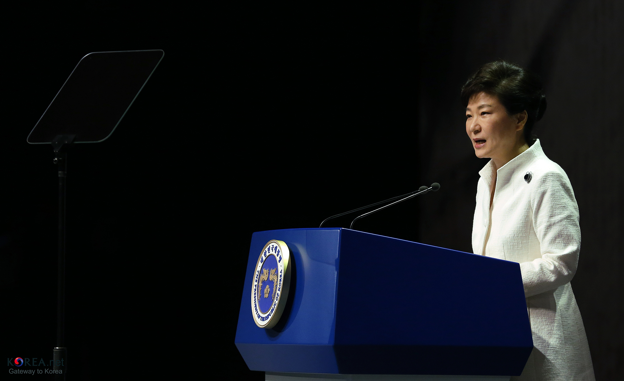 Ceremony for The 95th March First Independence Movement Day